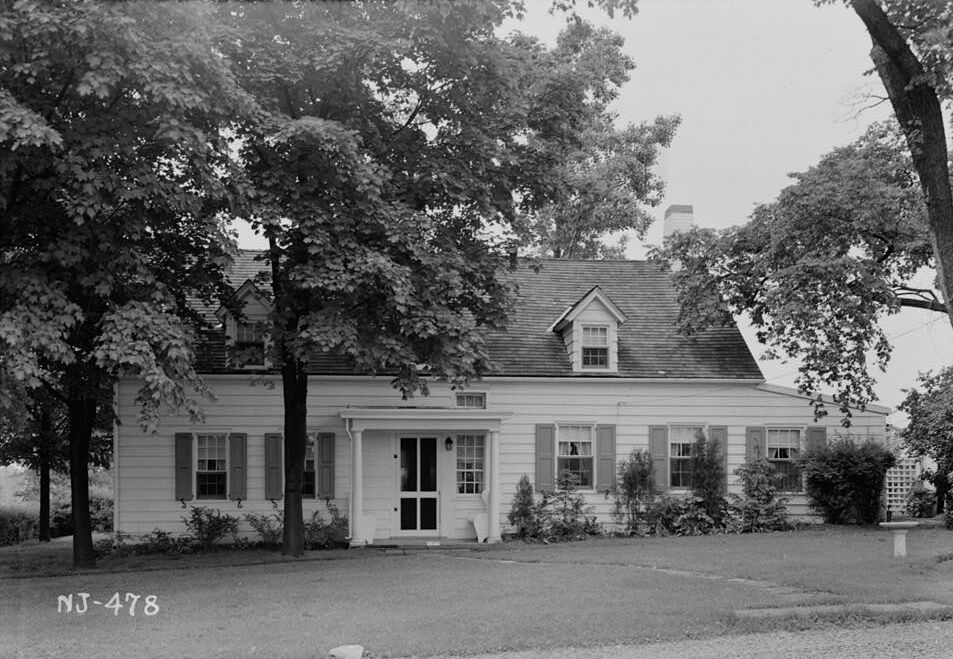 Reproduction Number: HABS NJ,12-NEBRU.V,4--1